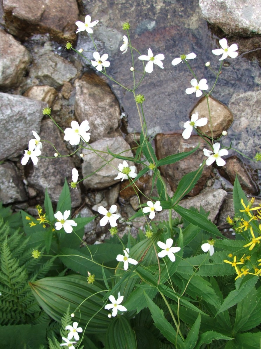 Ranunculus platanifolius (pl. jaskier platanolistny), habitat: Spalona Dolina, West Tatra Mountains